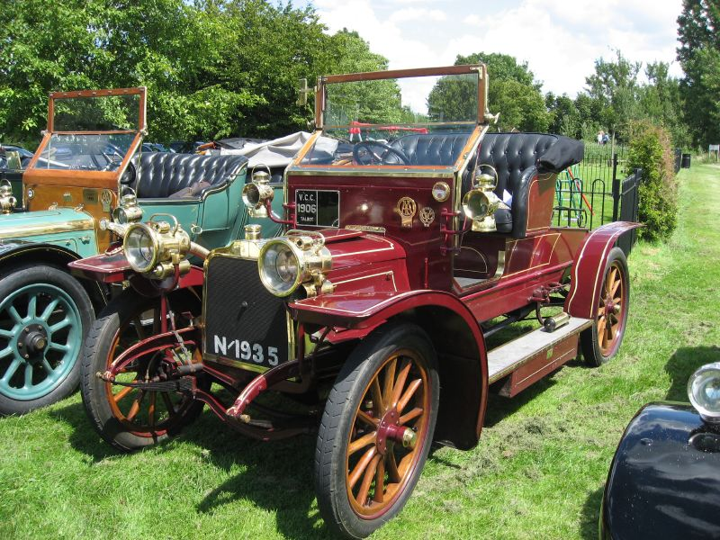 1906 Talbot Type CT4-OB 20/24hp two-seater Reg N1935 chassis 2018 engine 124 source of information VCC Uffington Oxfordshire picnic 8 July 2007